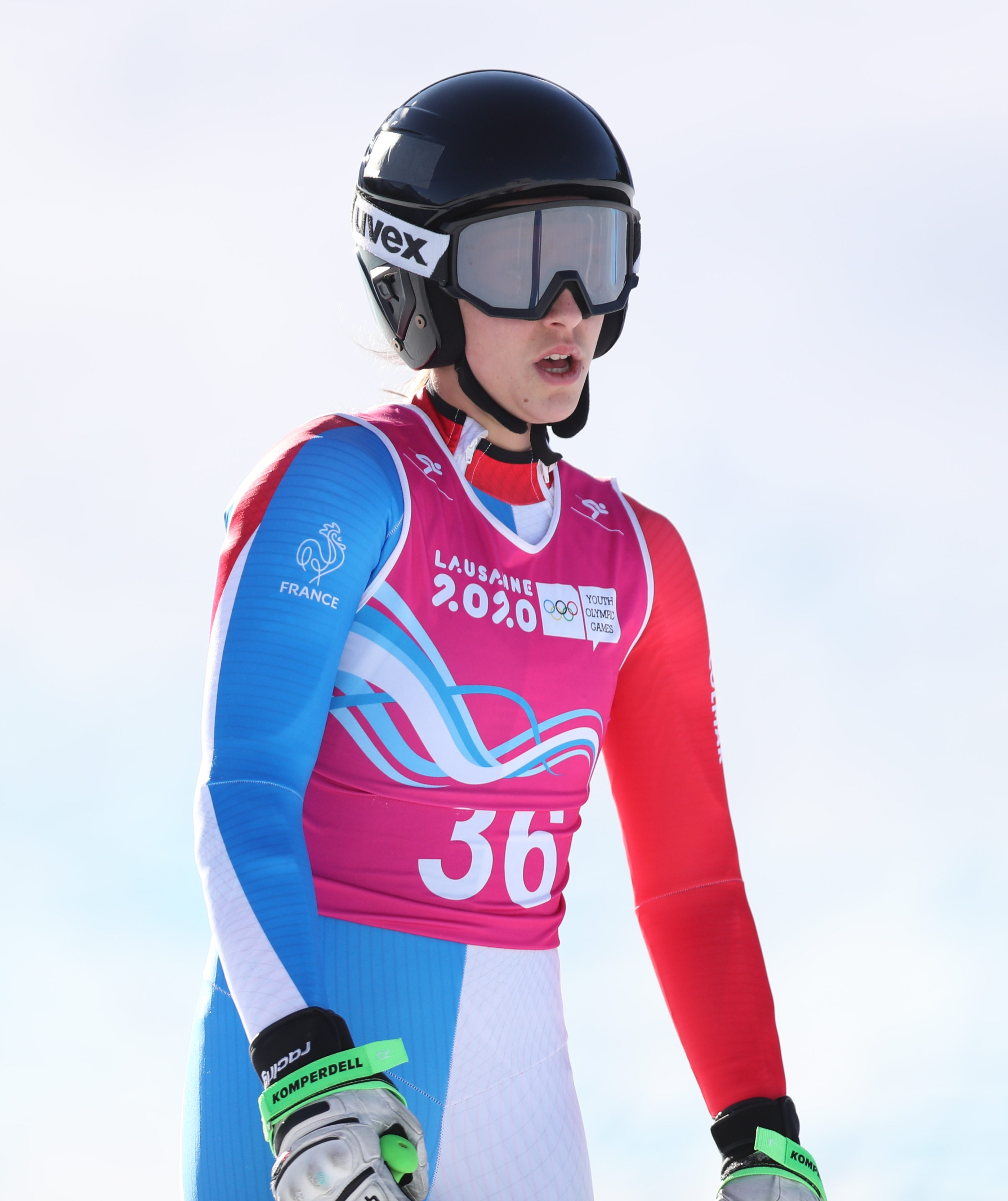 Women's Super G at the 2020 Winter Youth Olympics in Lausanne